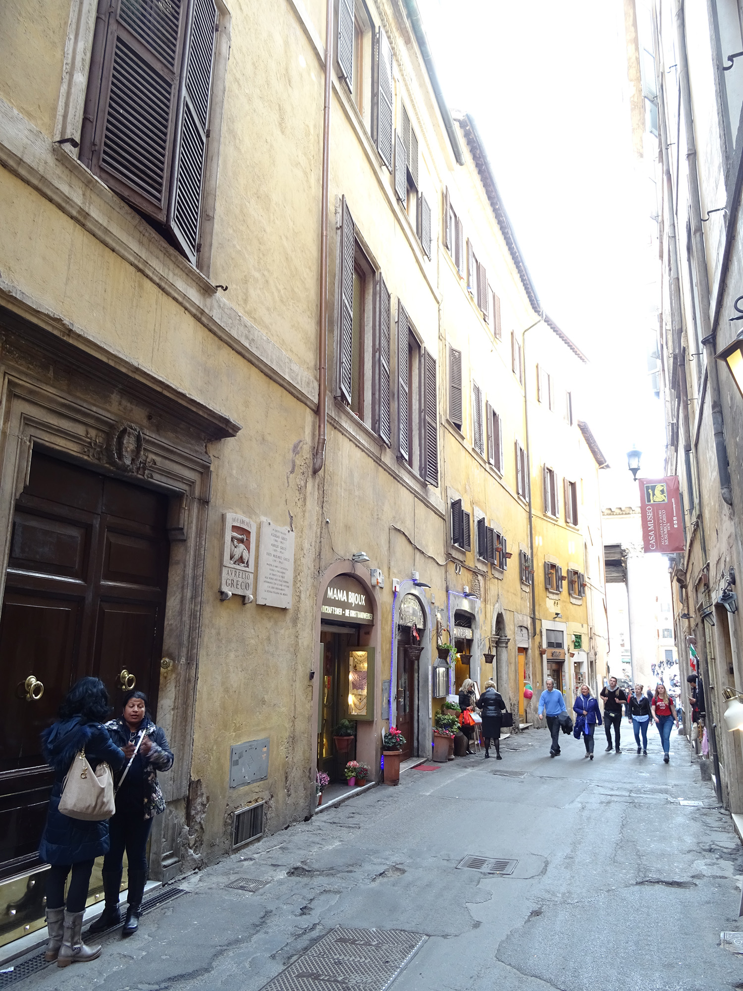 In this house Agesilao Greco (1866-1963) Aurelio Greco (1879-1954) Enzo Musumeci Greco (1911-1994) Masters of weapons and founder lived and forged the spirit and law of the noble art of fencing by stating with their victories and their teaching the Italian school in the world + SPQR 2011 Via del Seminario 87, Roma